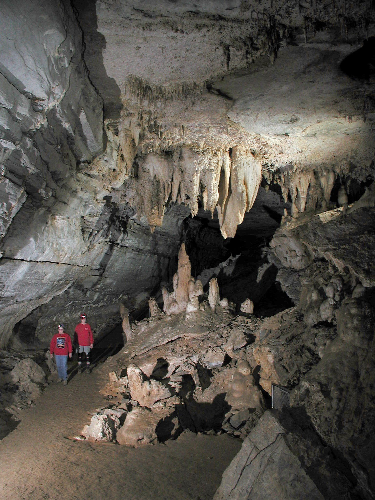 Cave passage in Great Onyx Cave, a former show cave in Mammoth Cave National Park, Kentucky